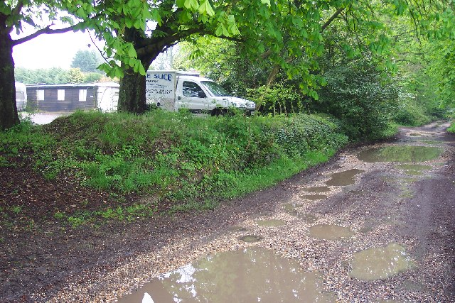 There's a platform hidden under there! The old Herriard railway station, on the now disused Basingstoke and Alton Light Railway, UK.